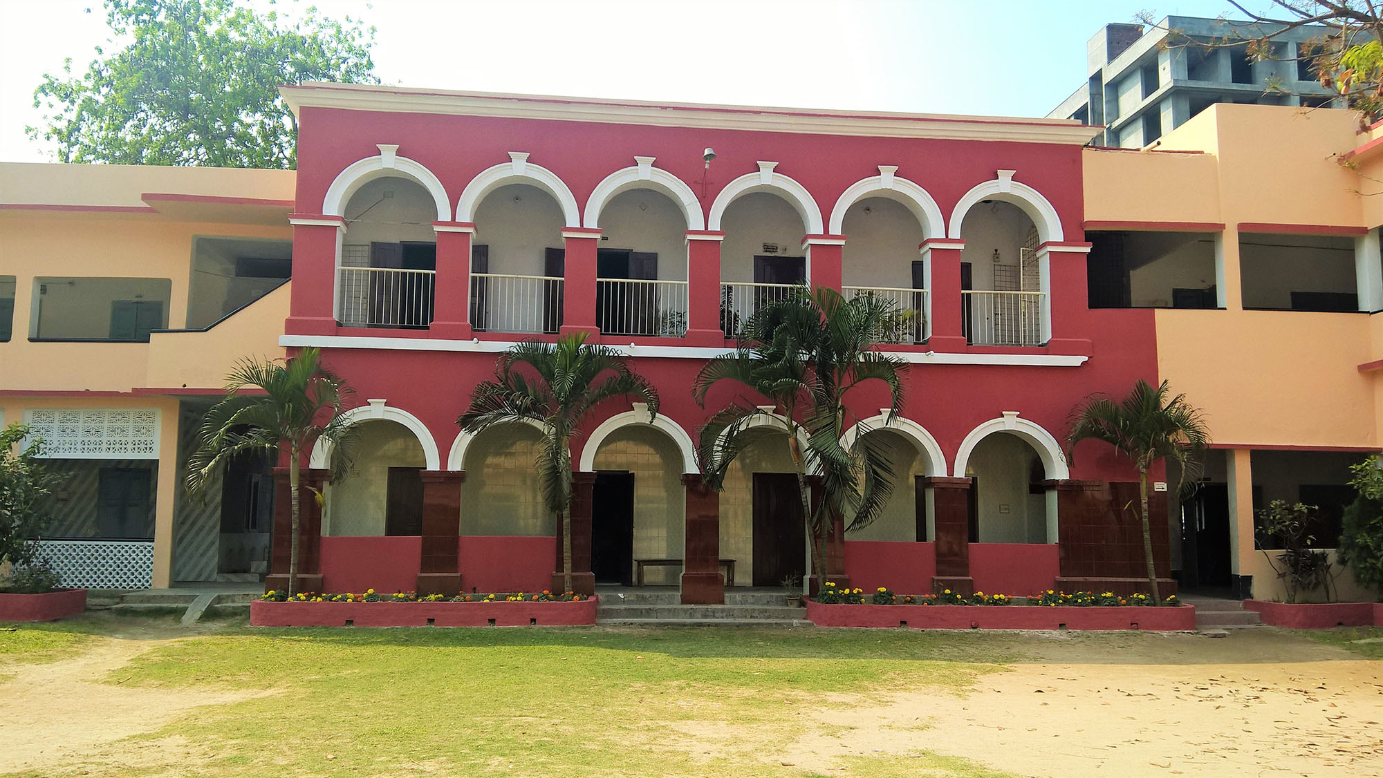 Rajshahi Loknath High School is one of the oldest school in the main town of Rajshahi.